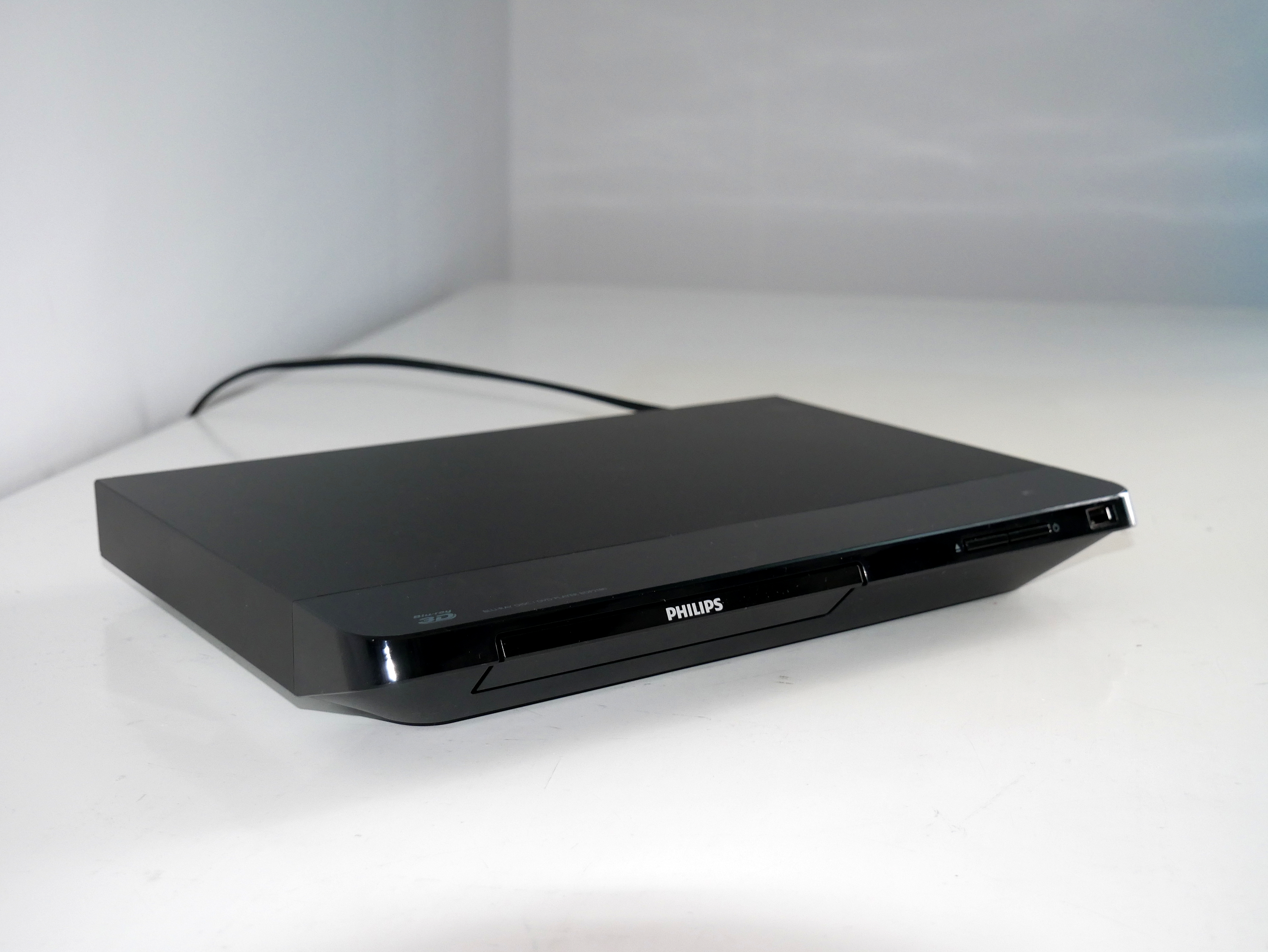 Philips BDP2180 Blu-ray player.